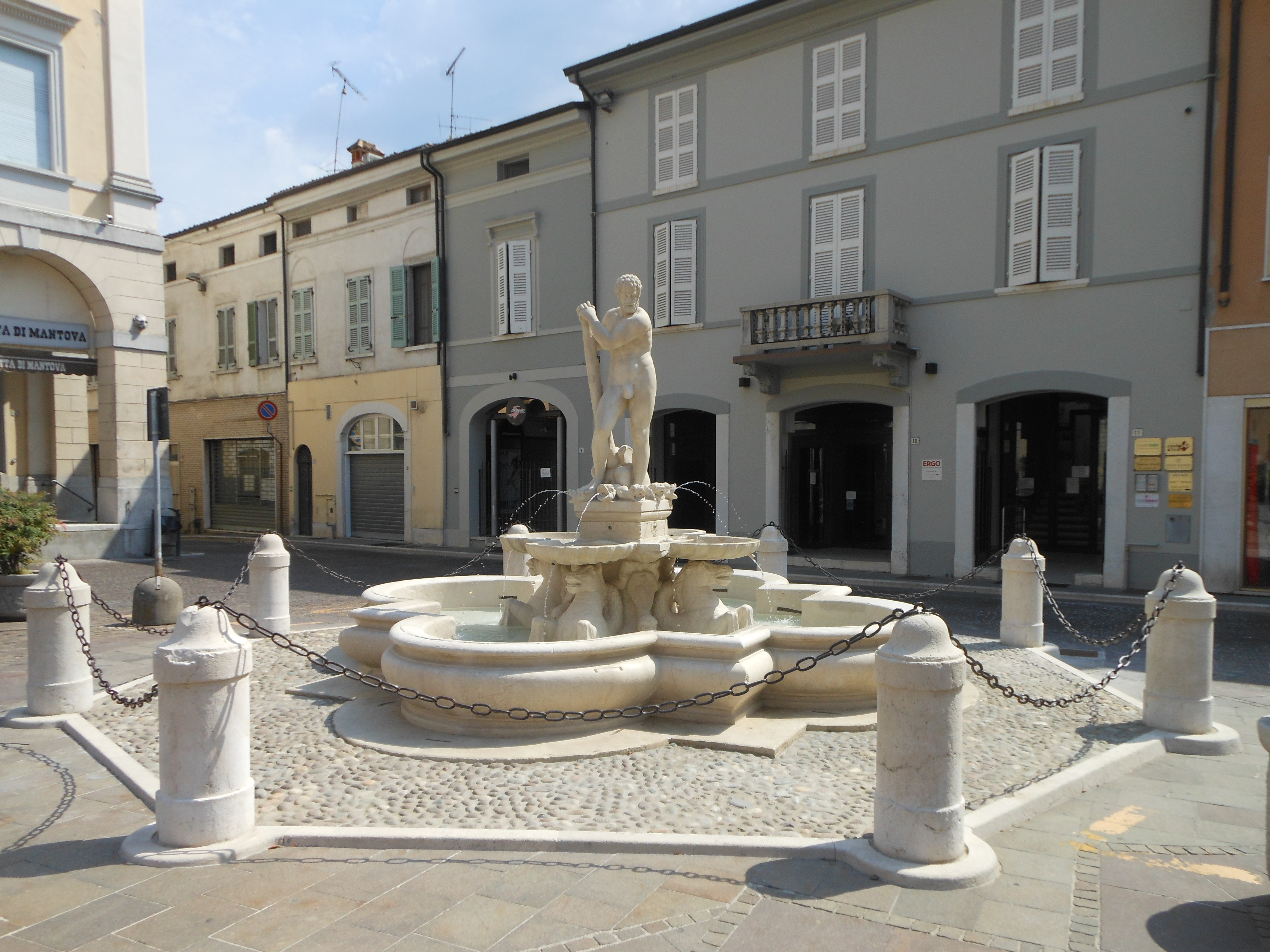 fontana di ercole